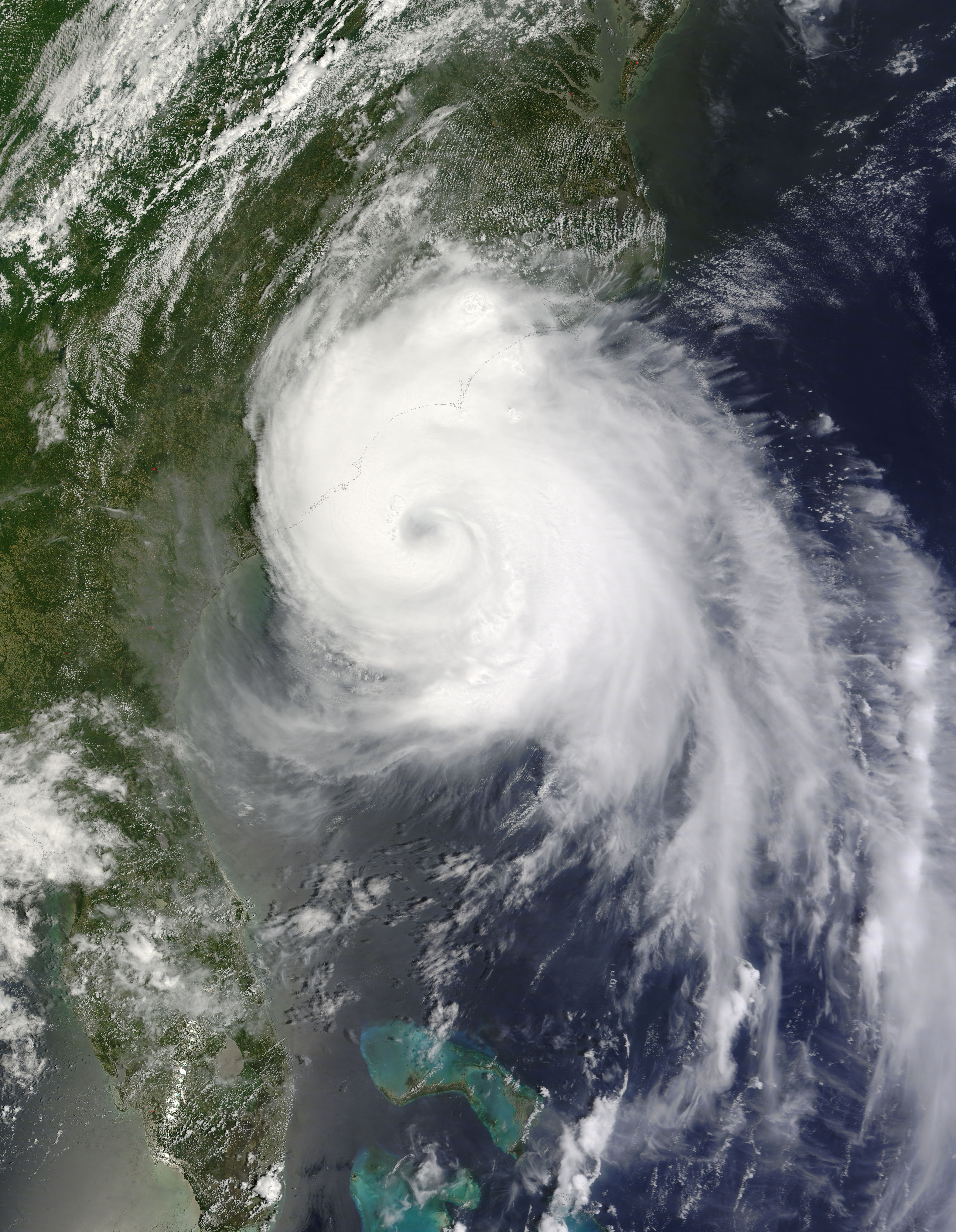 Hurricane Arthur (01L) off the Carolinas